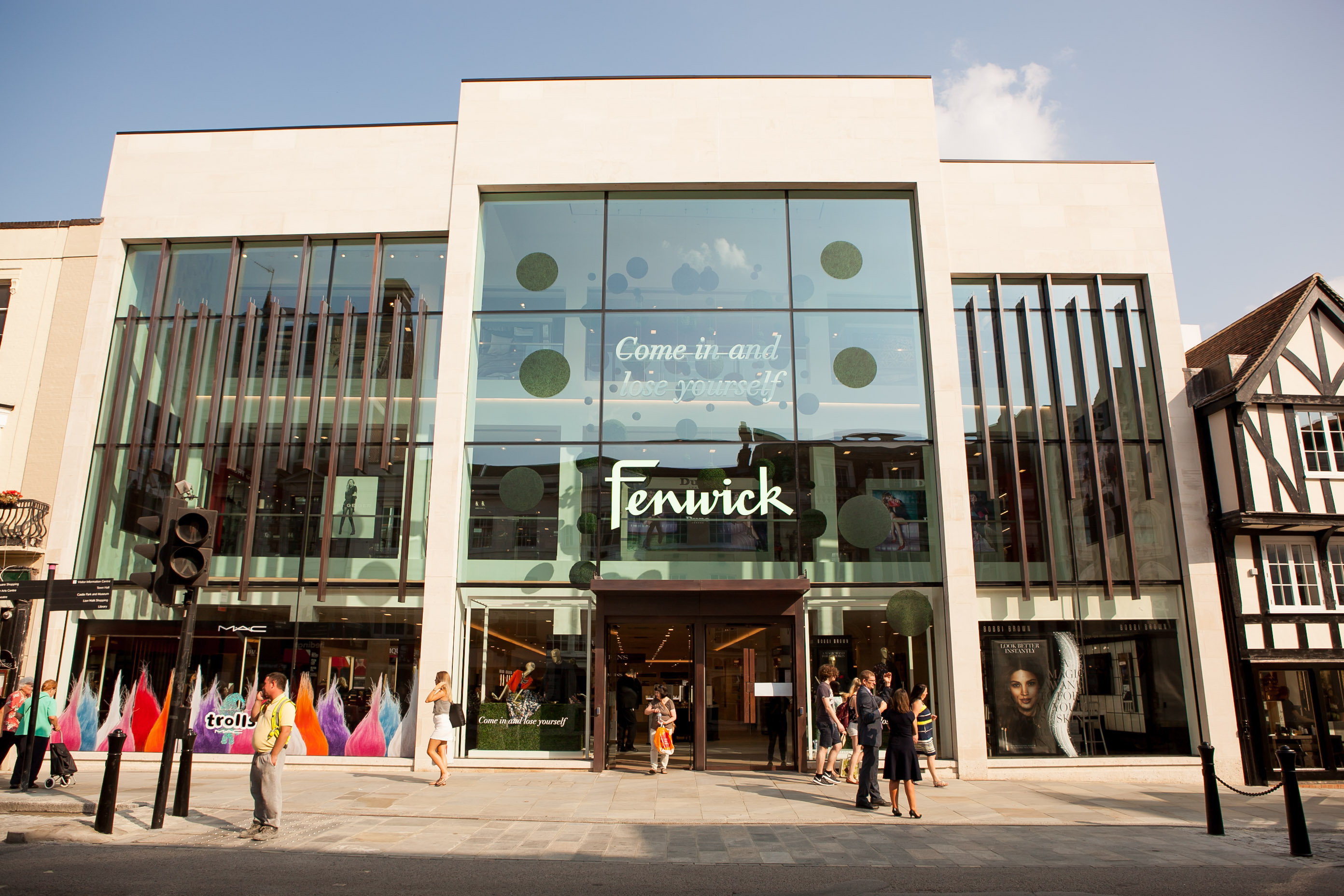 Fenwick Colchester located in Colchester High Street.